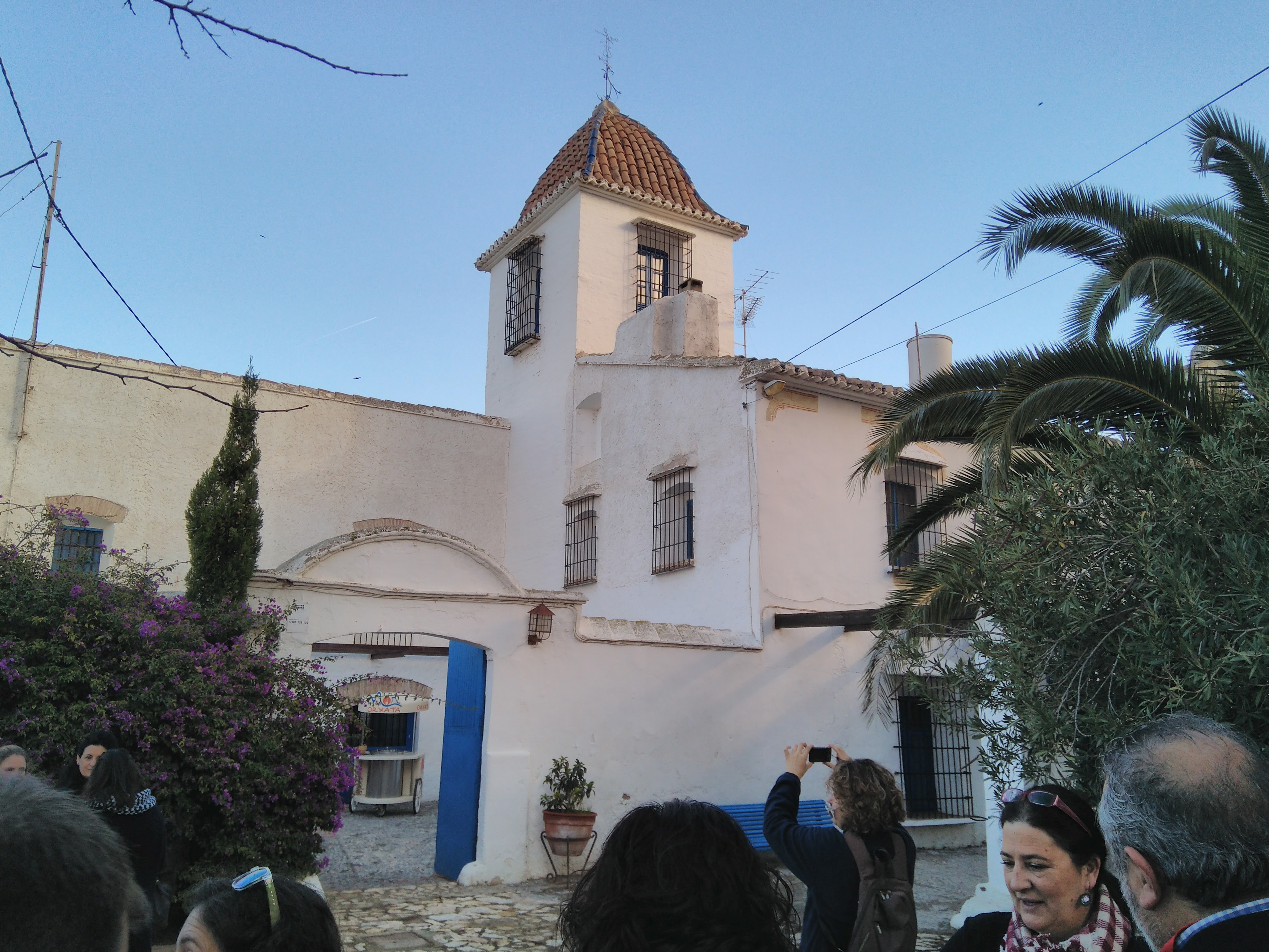 General View